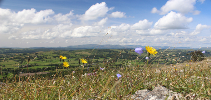 Limestone Grassland on Scout Scar, Cumbria